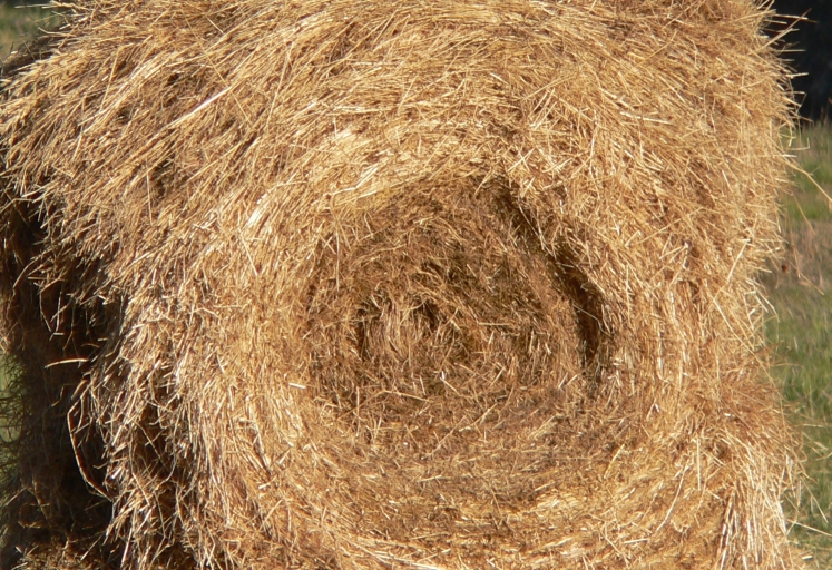 A round bale of hay, made from grass, which has been partially eaten by sheep, near Naracoorte, South Australia. Note the denser hay at the center of the bale. Round bales are harder to handle and store than square bales, but are generally preferred because they compress the hay more tightly.